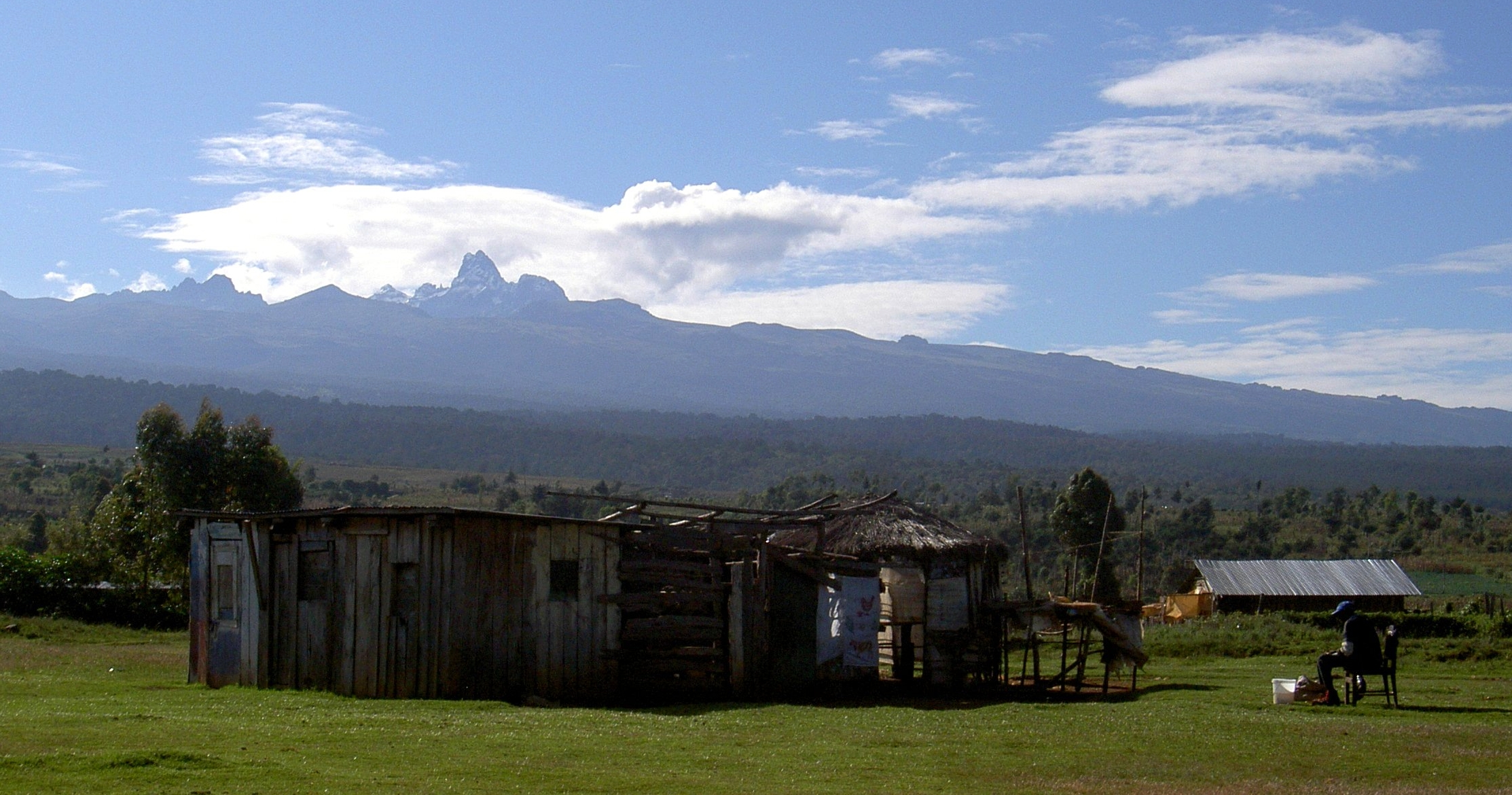 Mount Kenya seen from a distance. The highest points are Batian (5,199m) and Nelion (5,188m). The shape of the ancient shield volcano can be seen on the lower slopes. The higher slopes have been eroded away by an ice cap and subsequent glaciers exposing the central plug which now forms Batian.